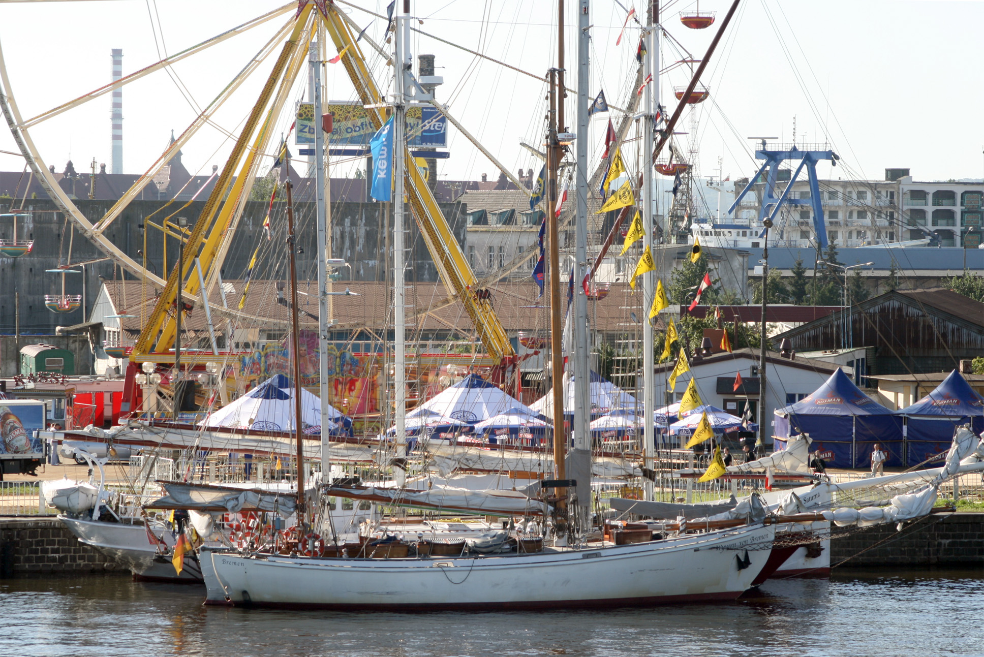 Wyvern von Bremen, The Tall Ships' Races, Szczecin 2007